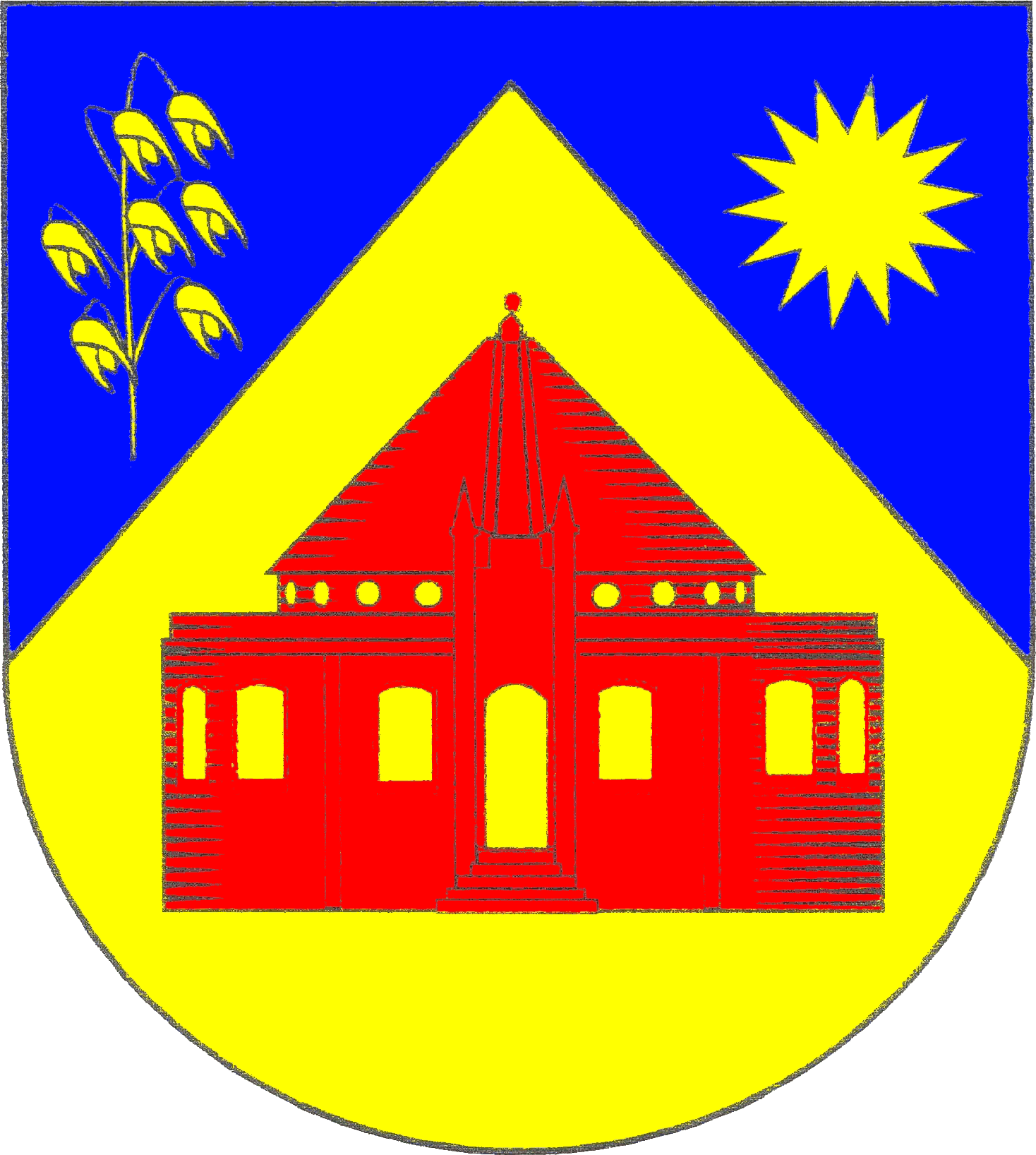 Coat of arms of the municipality Bothkamp in Schleswig-Holstein, Germany.